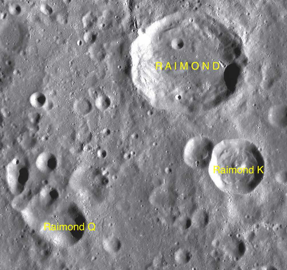 Part of the chart LAC-69 used for the presentation